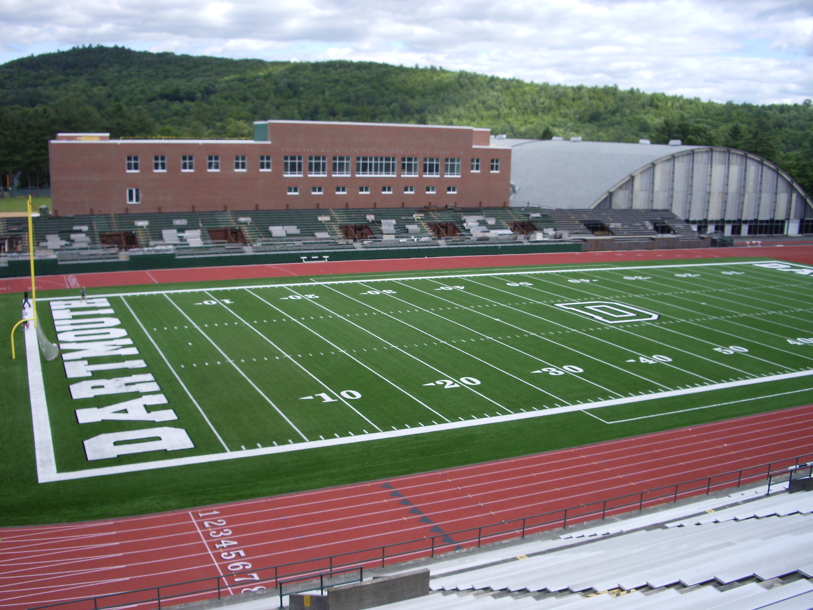 Photograph of Memorial Field at the campus of Dartmouth College in Hanover, New Hampshire.